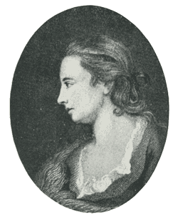 Miniature of Irish artist Letitia Bushe ((c.1710 – 17 November 1757)) by Joseph Browne. Engraving from Lady Llanover's "Correspondence of Mrs Delany" (1863).